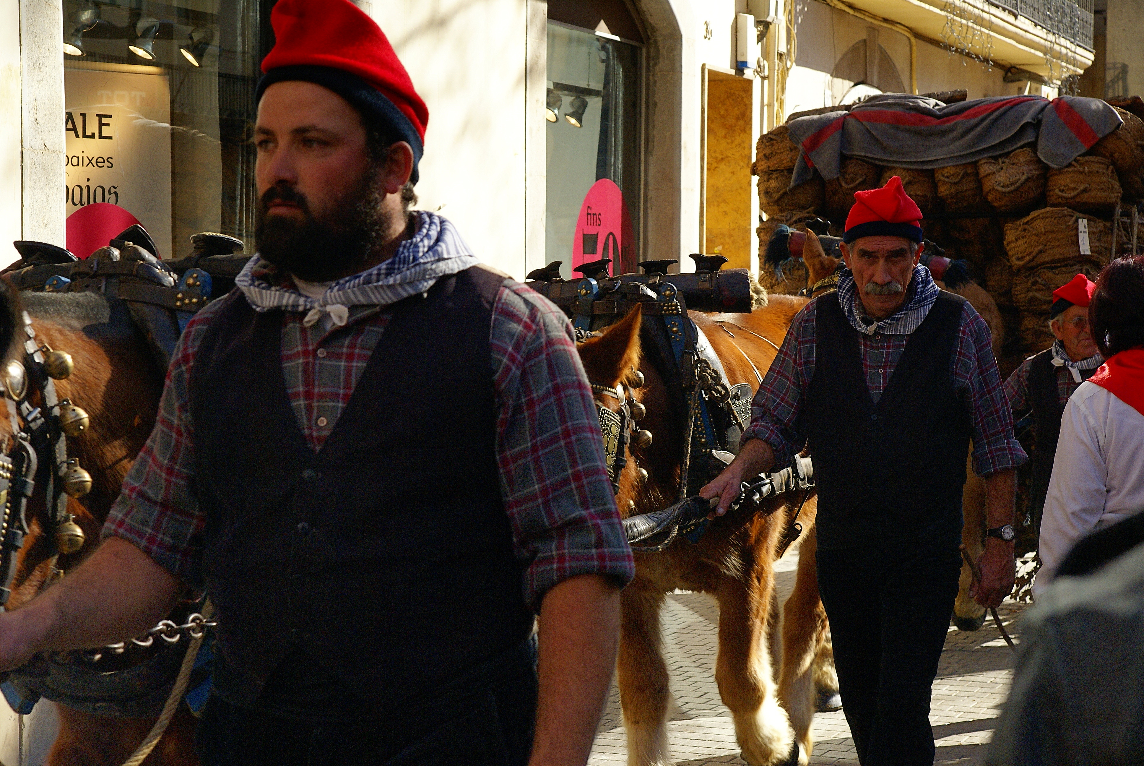 Catalan Muleteers (Traginers) at Tres Tombs celebration, with barretina hat